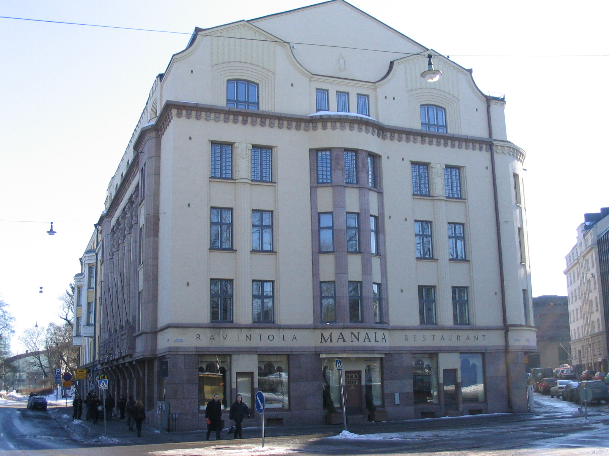 Photo of the Ostrobotnia house in Helsinki, Töölönkatu 3